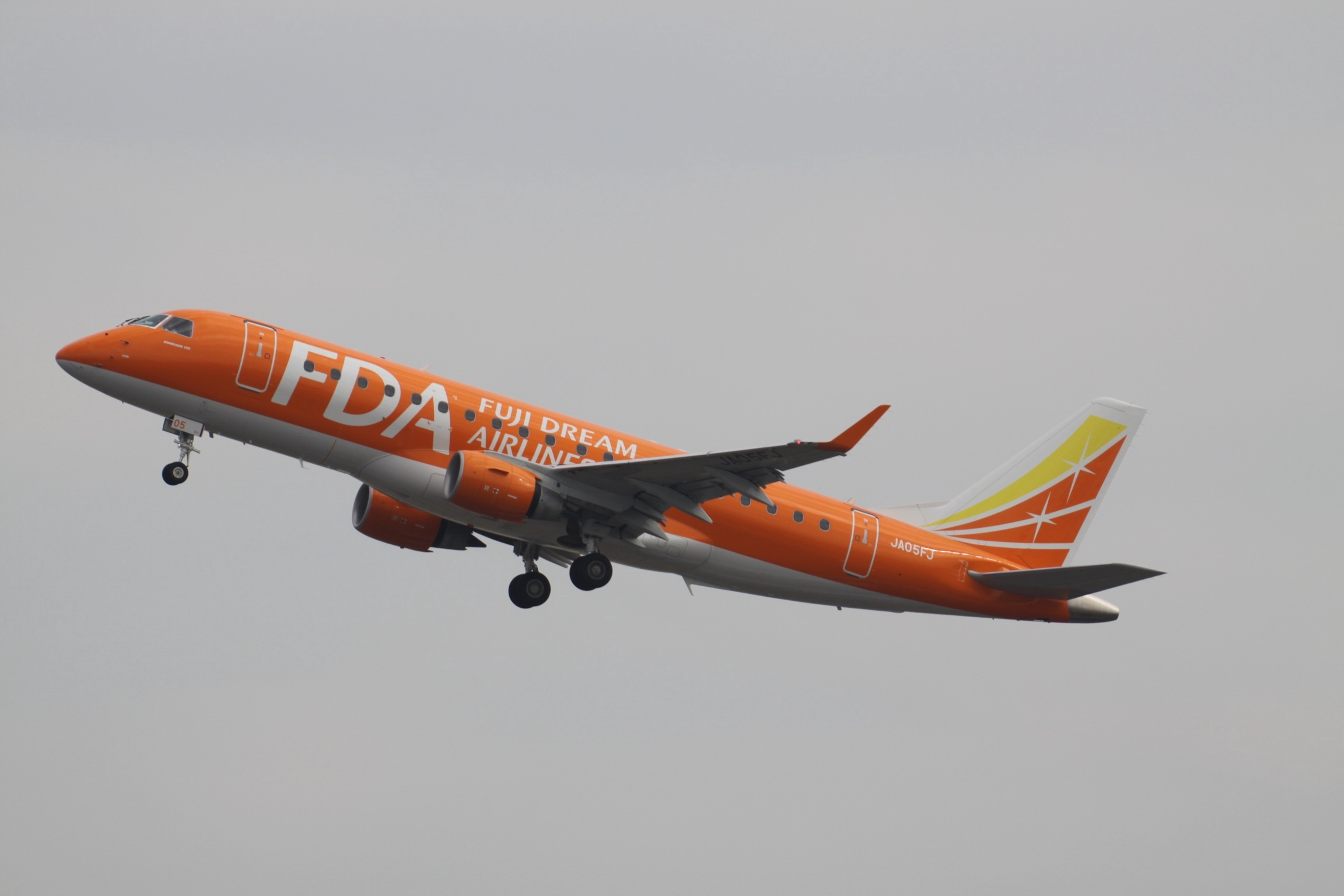 JA05FJ Embraer Emb.175 FDA Fuji Dream Airlines take off. At Nagoya Komaki Airport. See also : File:JA05FJ Embraer Emb.175 FDA Fuji Dream Airlines (7595761076).jpg File:JA05FJ Embraer Emb.175 FDA Fuji Dream Airlines (7595761644).jpg File:JA05FJ Embraer Emb.175 FDA Fuji Dream Airlines (7595762616).jpg File:JA05FJ Embraer Emb.175 FDA Fuji Dream Airlines (7595763178).jpg